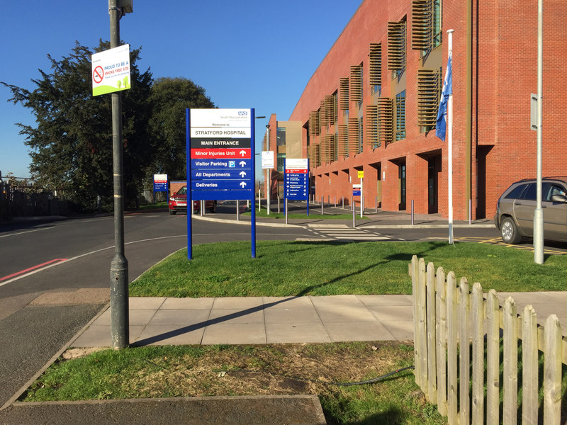 New signage, Stratford-upon-Avon Hospital